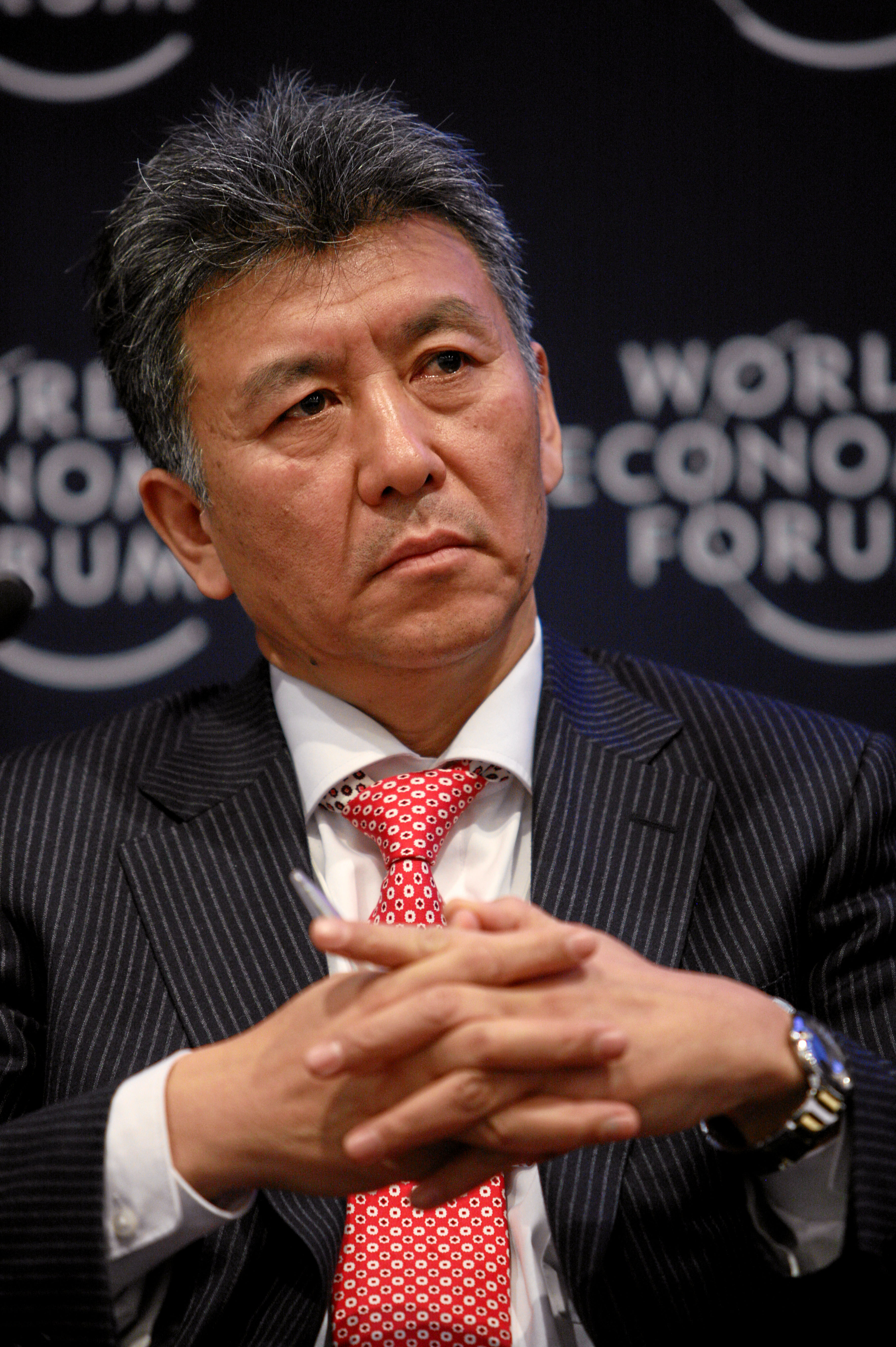 DAVOS/SWITZERLAND, 26JAN11 - Liu Jiren, Chairman and Chief Executive Officer, Neusoft Corporation, People's Republic of China; Global Agenda Council on Emerging Multinationals looks on during the session 'Insights on China' at the Annual Meeting 2011 of the World Economic Forum in Davos, Switzerland, January 26, 2011. Copyright by World Economic Forum by Remy Steinegger